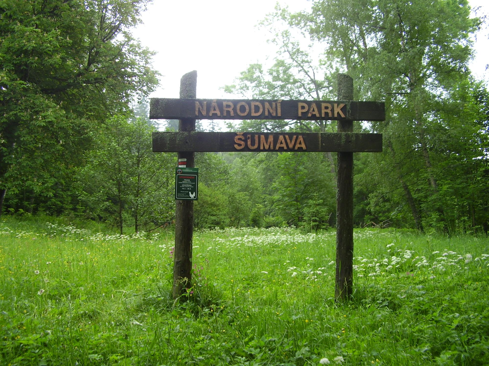 Welcome notice NP Šumava near alžbětín